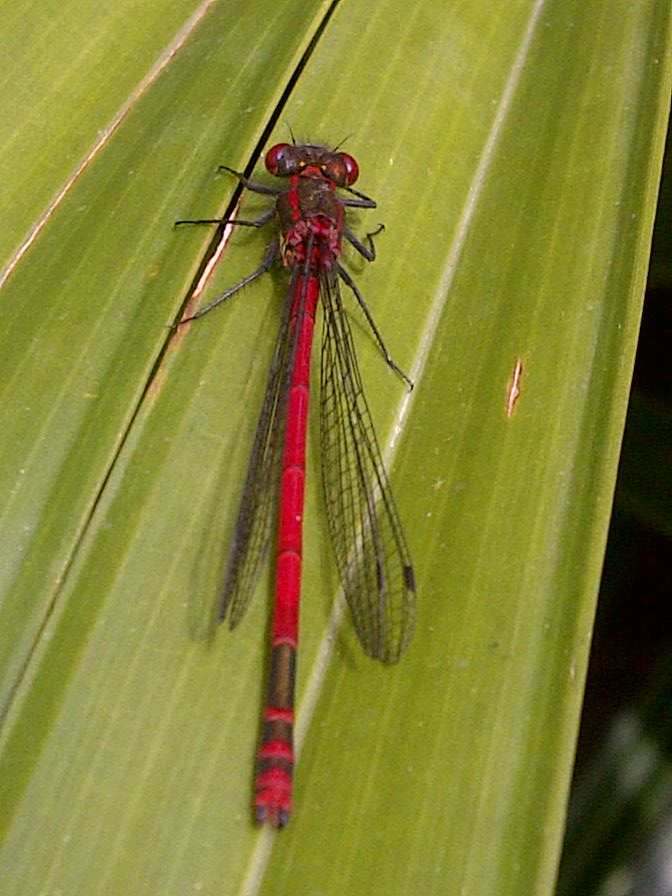 Large red damselfly (Pyrrhosoma nymphula) in London, England.